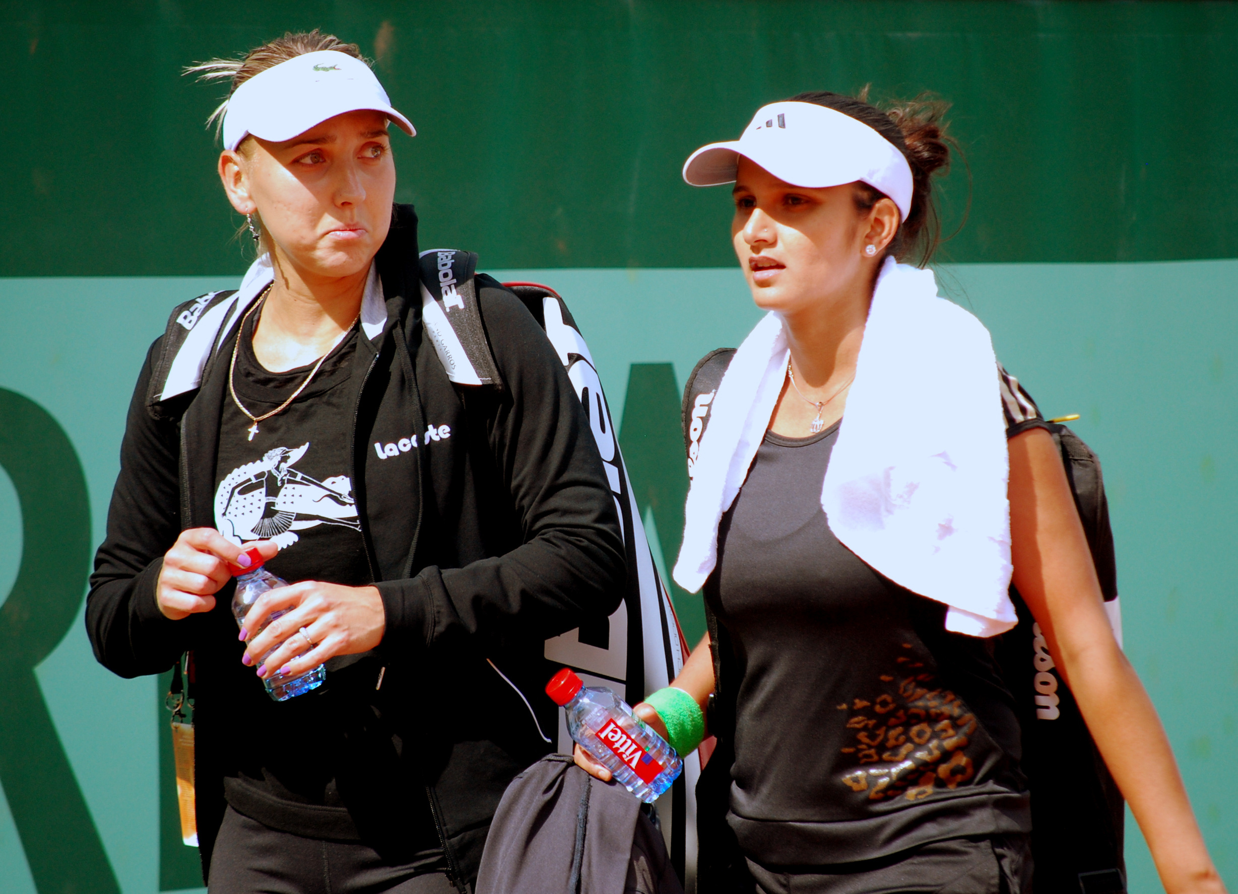 After a practice session. Roland Garros 2011.